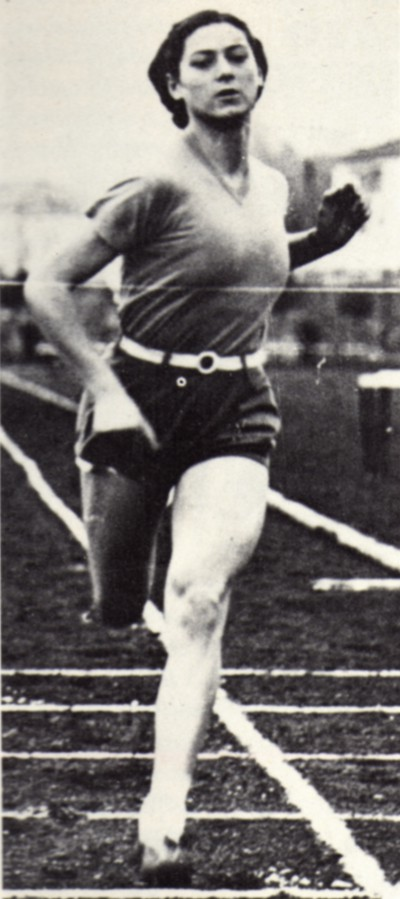 Claudia Testoni in a shot in Italy in 1930s